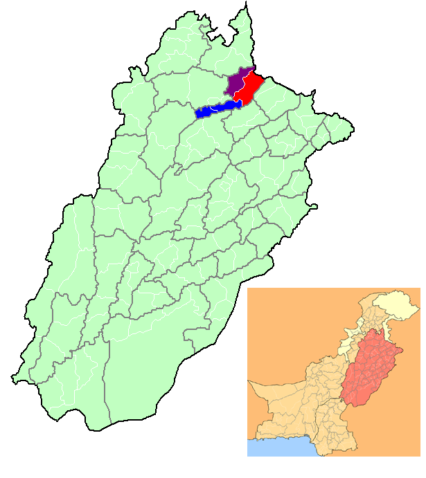 Tehsil-wise location of Jhelum District in Punjab, Pakistan Red = Jhelum tehsil Purple = Sohawa tehsil Blue = Pind Dadan Khan tehsil [missing: Dina tehsil]